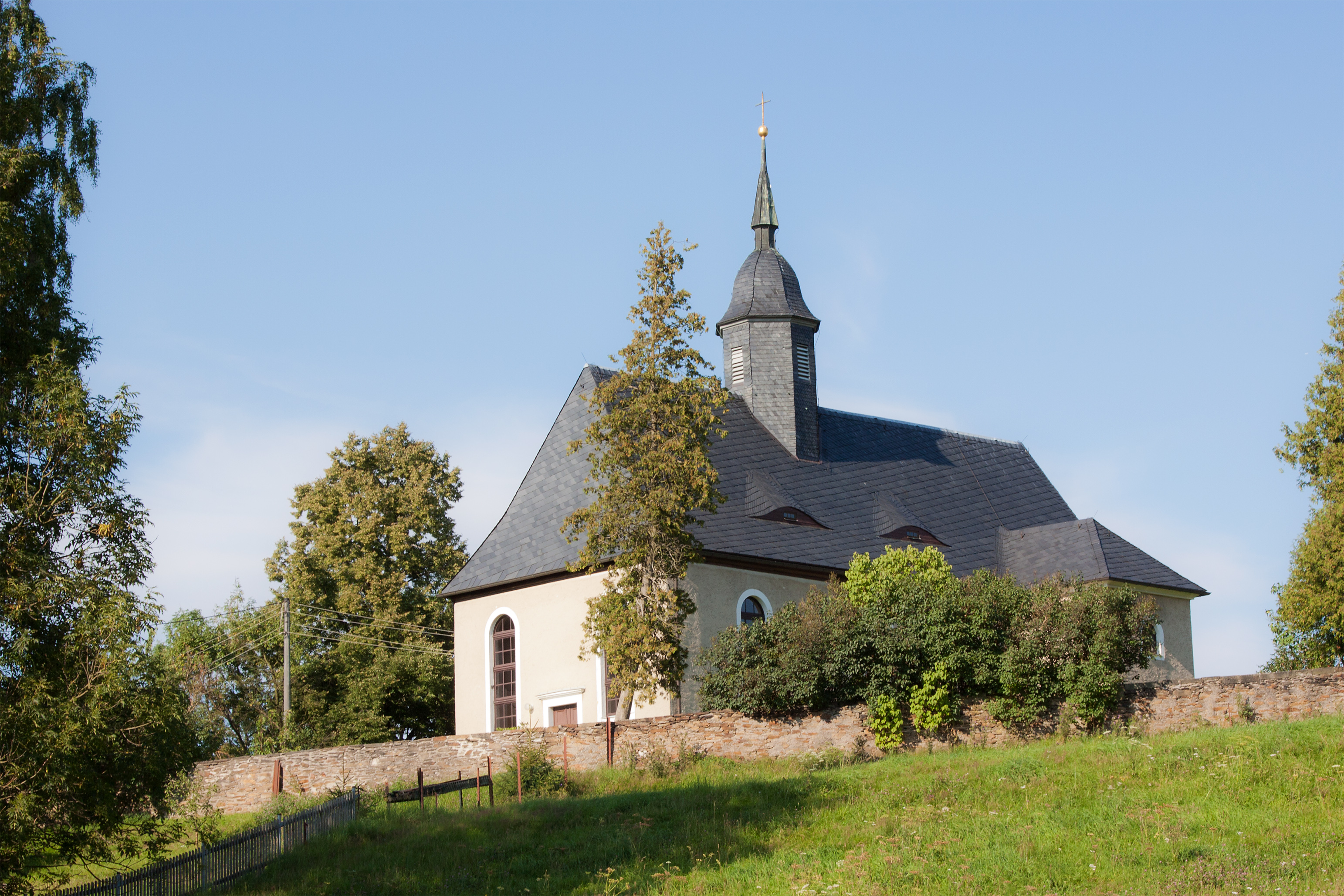 Rothenfurth (part of Großschirma), church